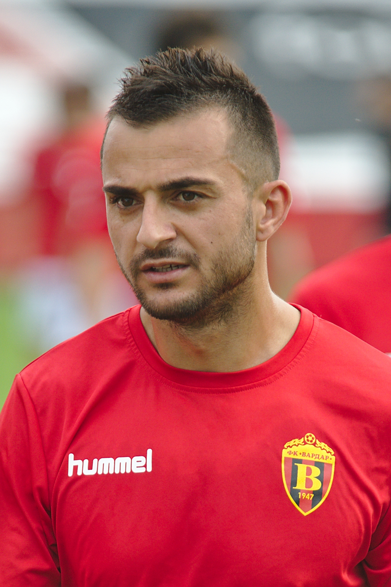 Friendly match Admira Wacker Mödling vs. FK Vardar Skopje, 2017-06-21. Picture shows: Damir Kojašević